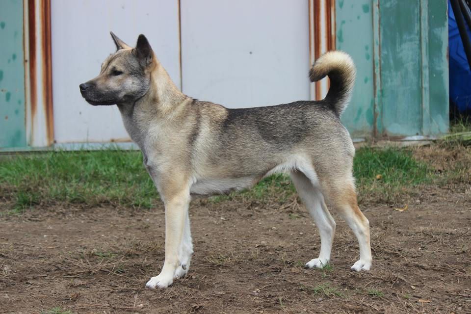 Female, sesame Kishu Ken